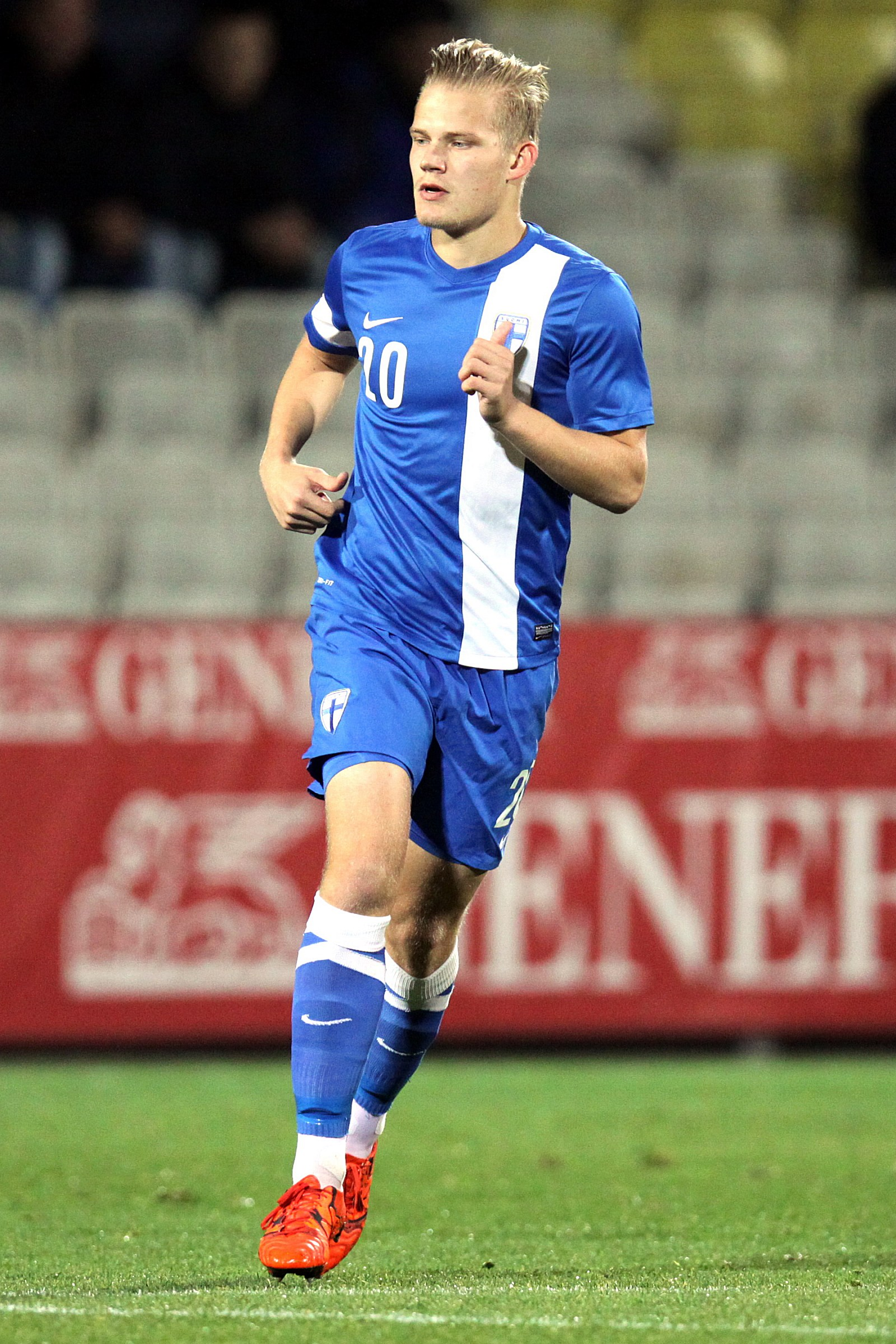 2017 UEFA European Under-21 Championship qualification – Austria U-21 (red shirts) vs. :en:Finland national under-21 football team |Finnland U-21 (blue shirts) 2-0 (0-0) – 2015-11-13 in Vienna, Austria Arena – The photo shows Joel Pohjanpalo.